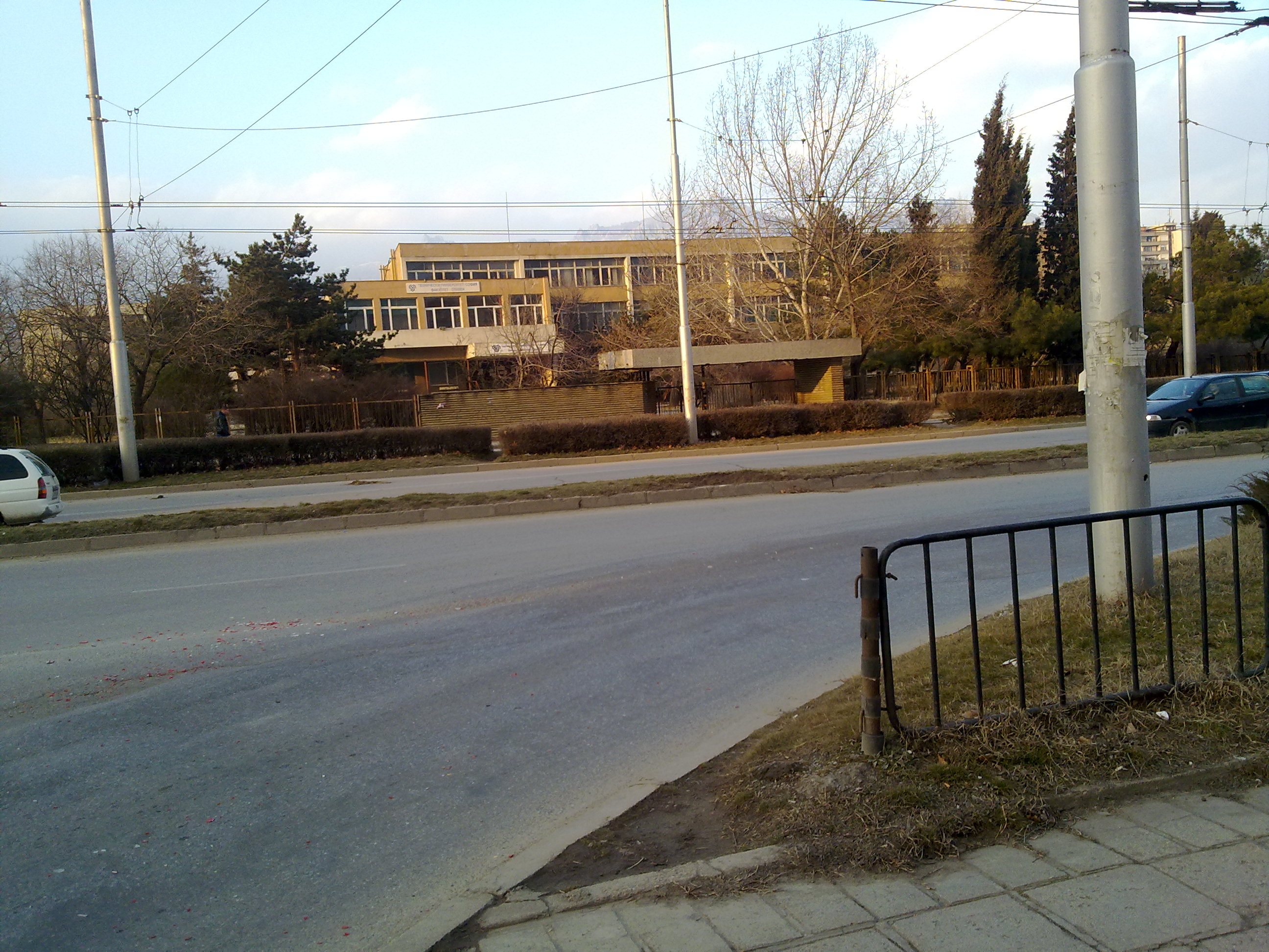 А photo of the Engineer-Pedagogic Faculty of the Technical University-Sofia.